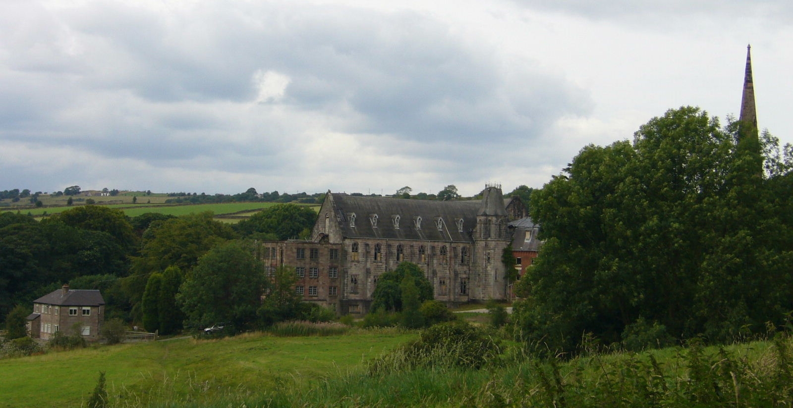 Part of the former St Wilfrid's College, Cotton, a Roman Catholic former boarding school in Staffordshire. On the right is the spire of St Wilfrid's chapel.